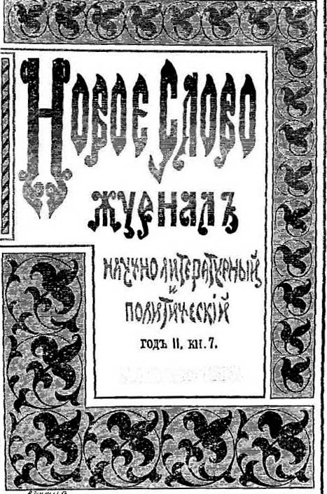 Cover of Russian magazine Novoe Slovo 1897 year.